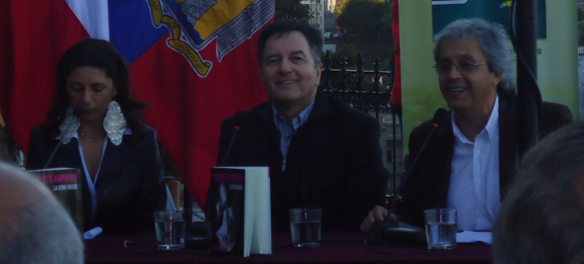 Presentation of La Otra Mujer of Roberto Ampuero